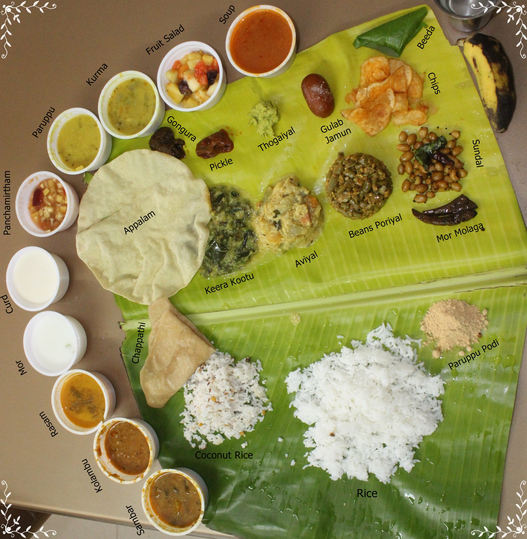 Veg Meals in Tamil Nadu,India traditionally served in banana leaf